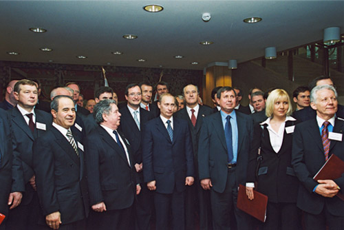 THE FEDERAL ECONOMIC CHAMBER, VIENNA. Meeting with Austrian businessmen.